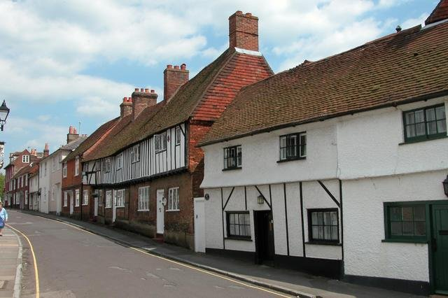 Sheep Street, Petersfield. One of the oldest and most picturesque streets in Petersfield, houses here date from the 16th C. onwards. The early prosperity of Petersfield was based on wool, which probably explains the name Sheep Street. This picture is looking towards the market square from The Spain, which is where the wealthy Spanish wool merchants lived.